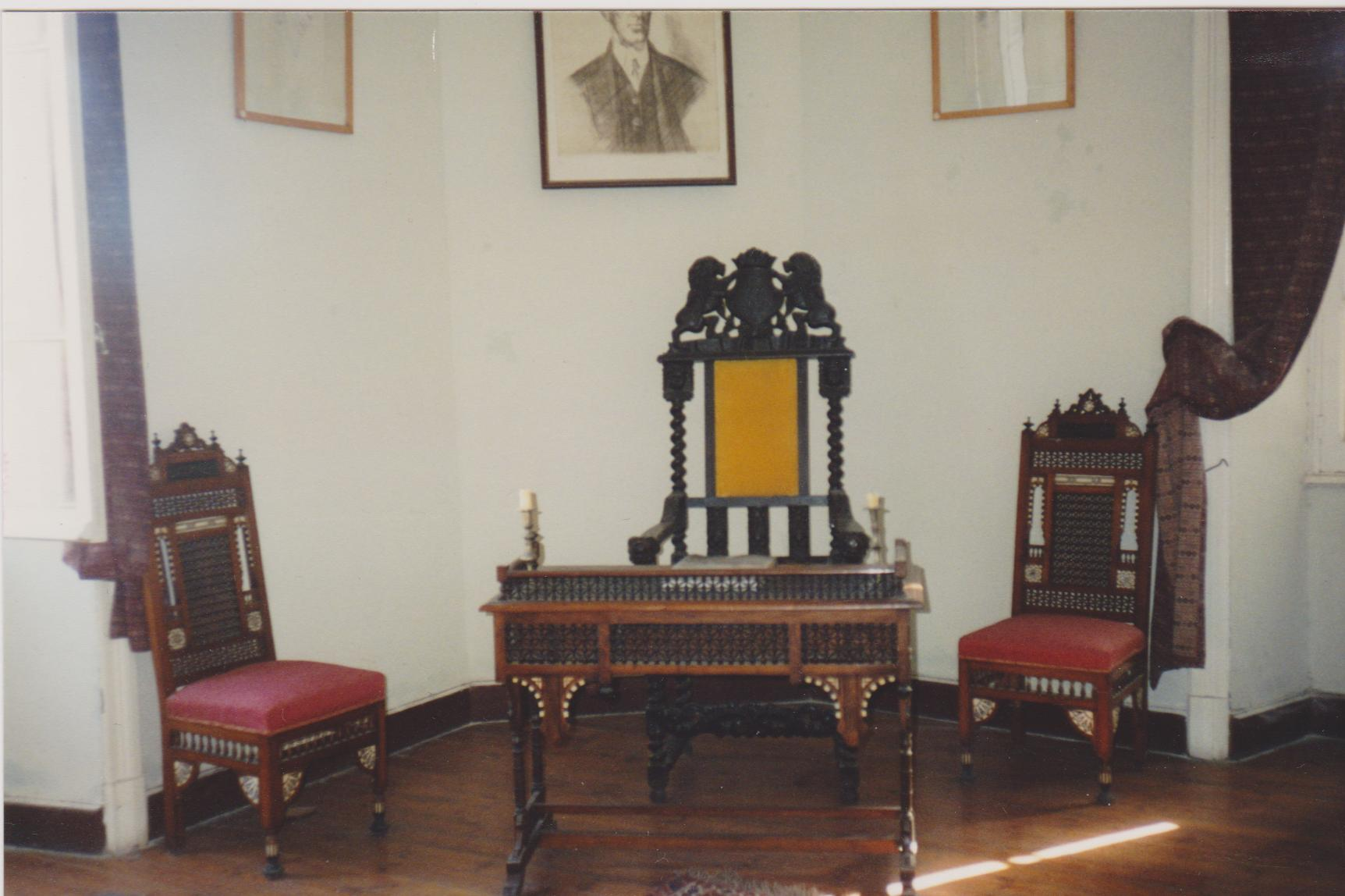 The Kavafy Museum